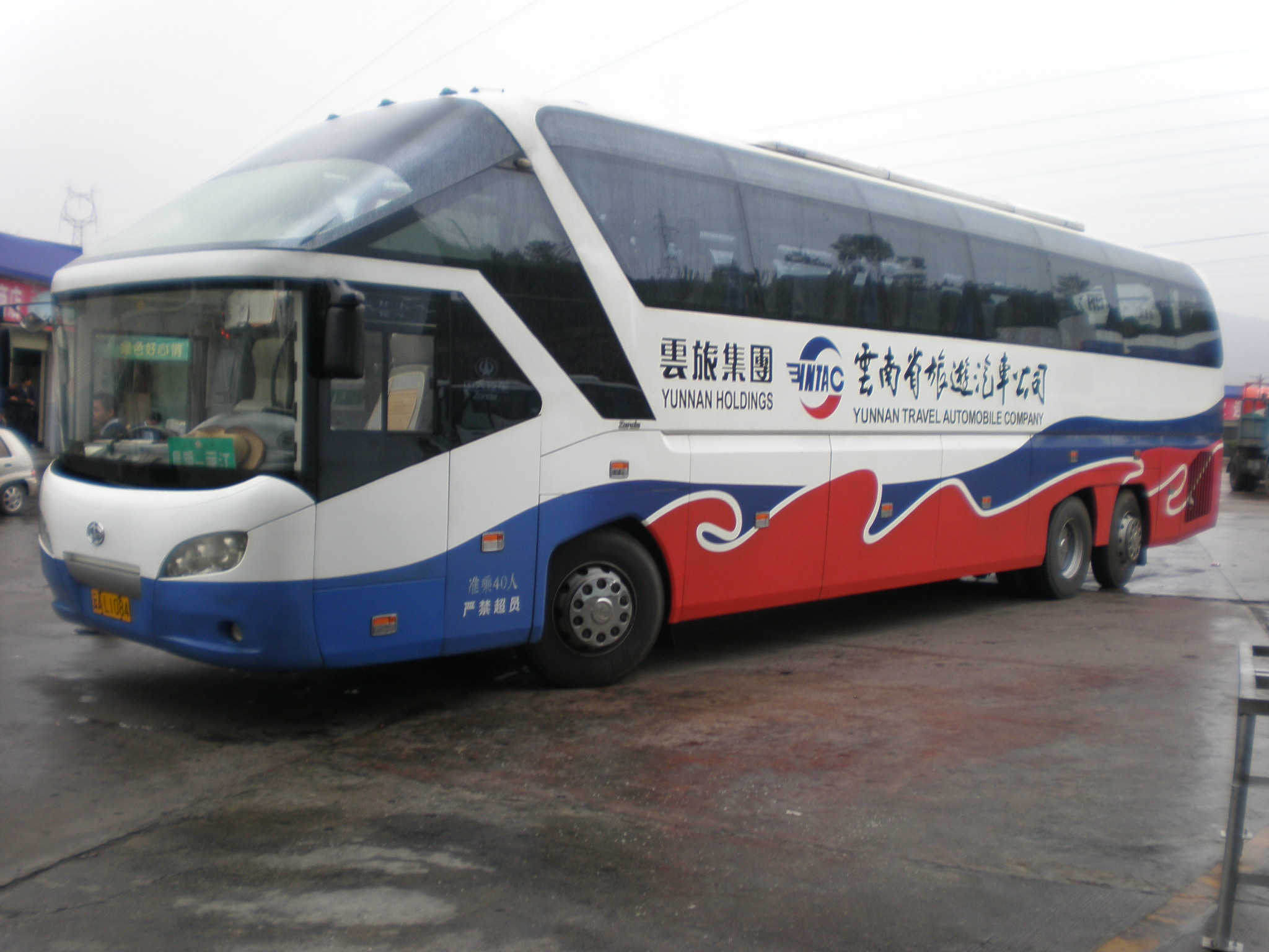 A Yunnan Travel Automobile Company long distance bus, running the route from Kunming to Lijiang.